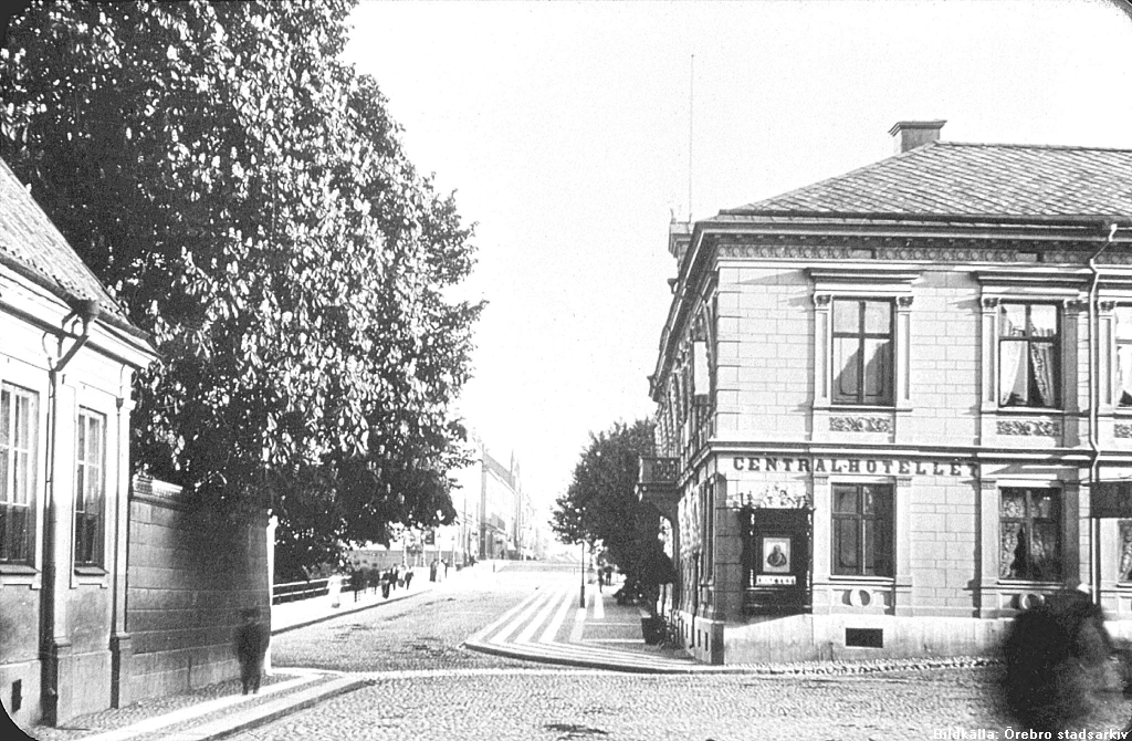 Central hotel in Örebro, Sweden